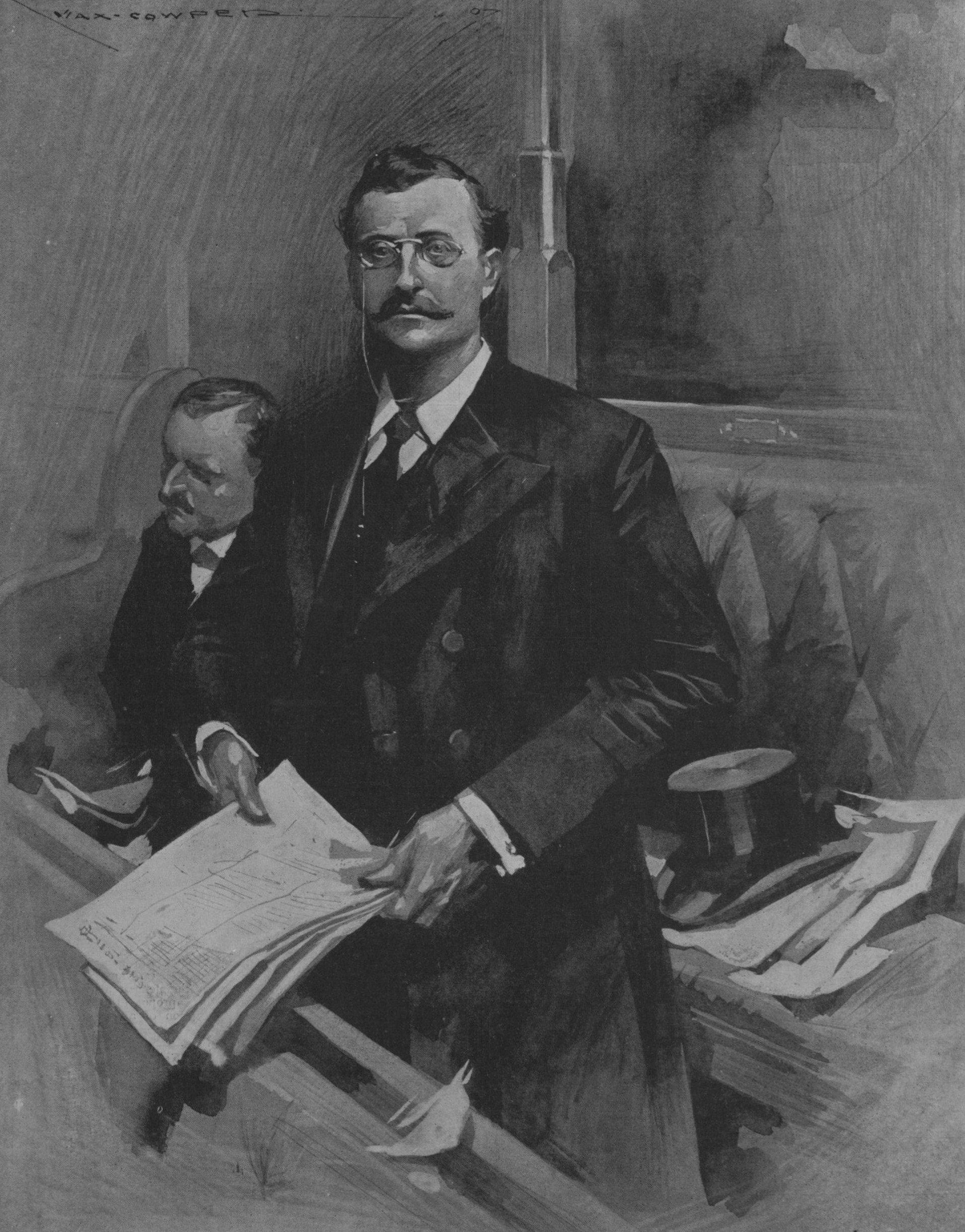 Willie Redmond (1861-1917), MP, speaking in the House of Commons on 30 July 1907.